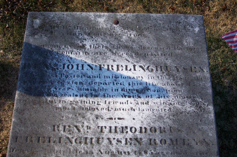 John Frelinghuysen gravestone image taken on January 9, 2004